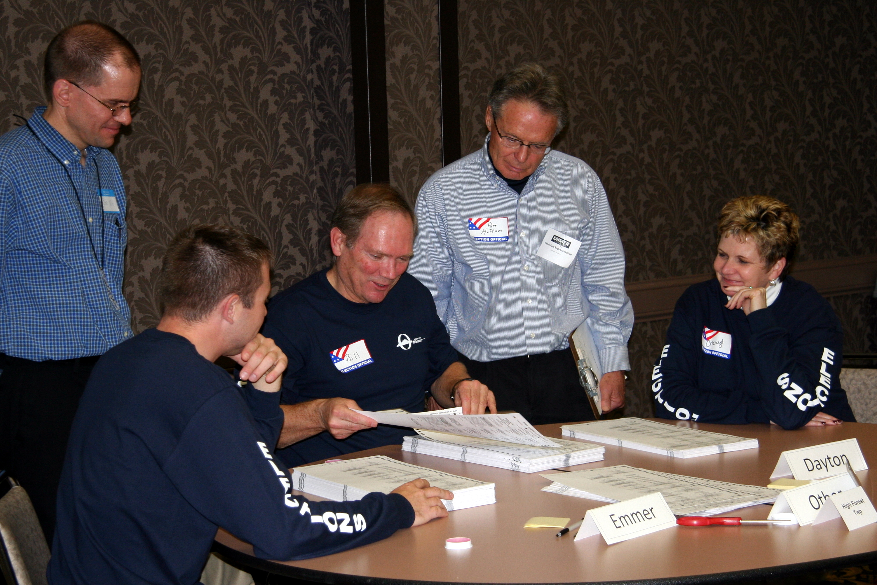 Olmsted County officials manually recounting the votes from High Forest Township in the 2010 race for Governor of Minnesota, with observers for the Dayton and Emmer campaigns standing behind them.